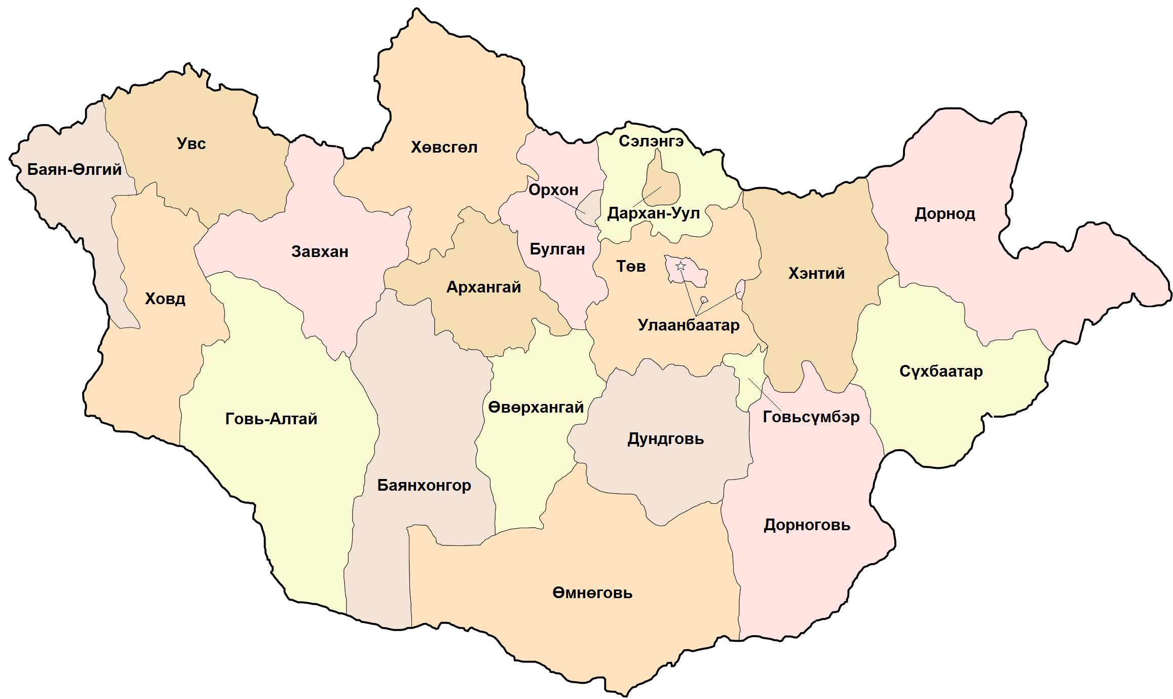 Aimags of Mongolia